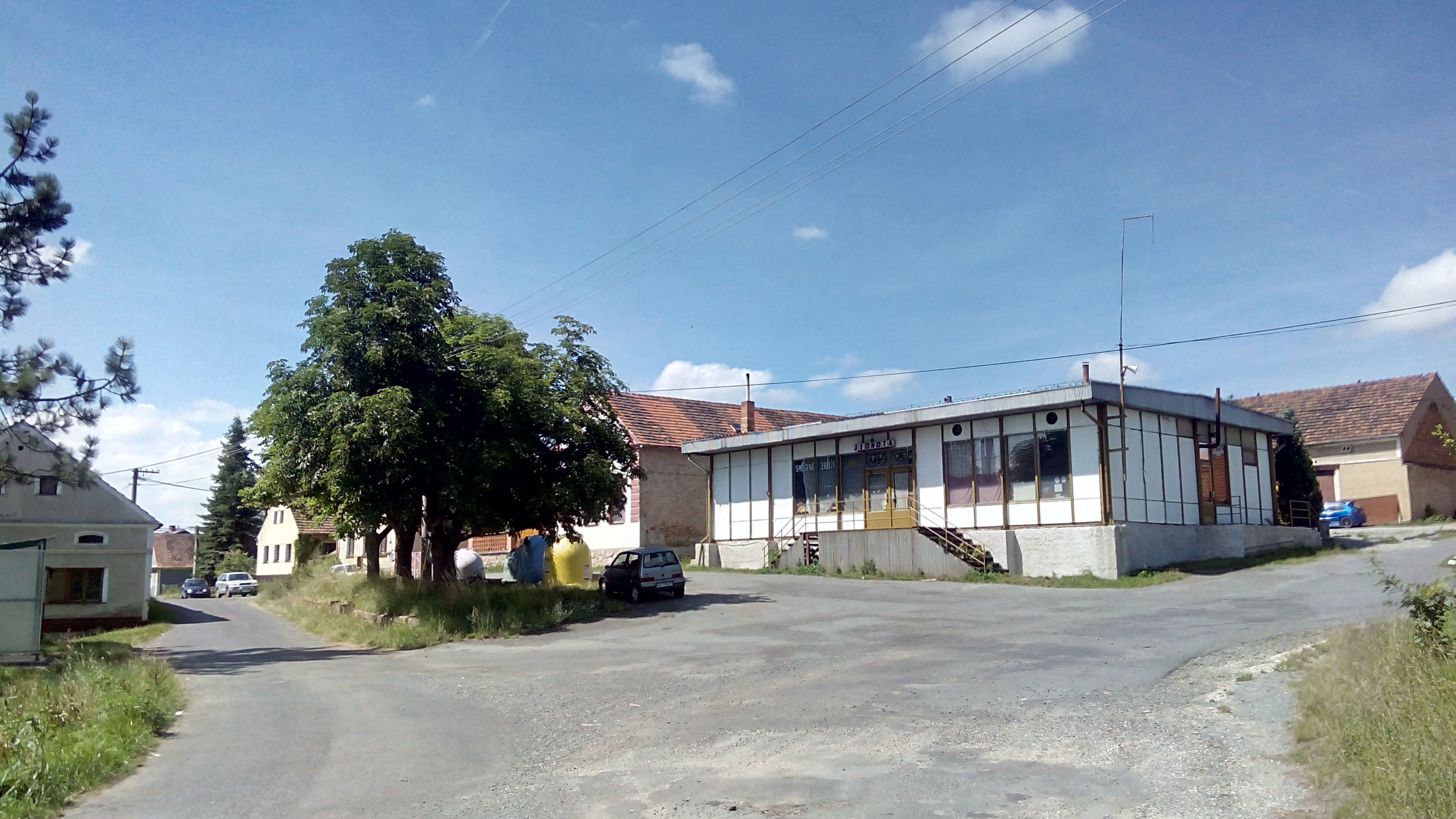 Village green in Dolní Metelsko, part of Horšovský Týn, Plzeň Region, Czech Republic.